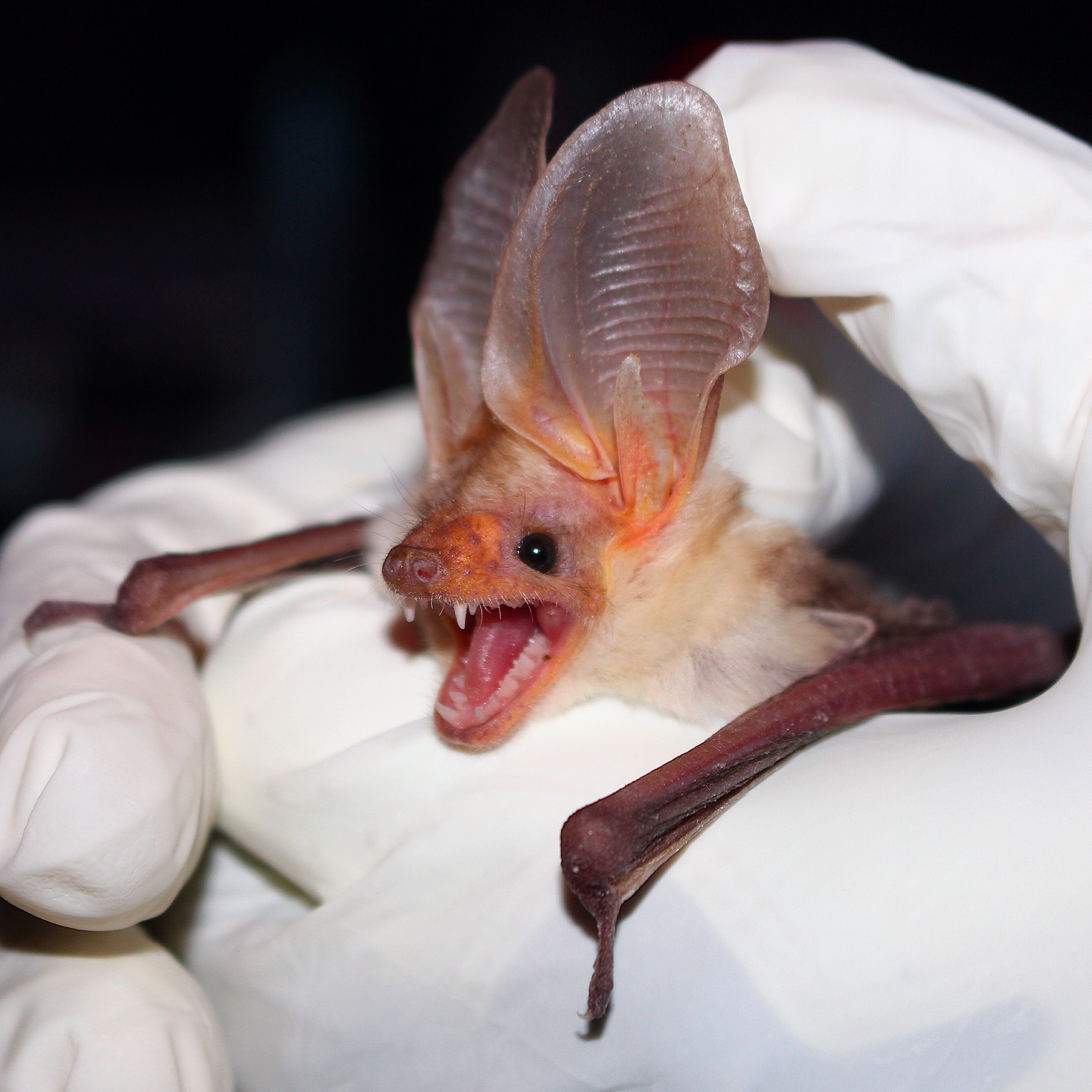 A Pallid Bat trapped by mist-net as part of a zoological survey. Other information